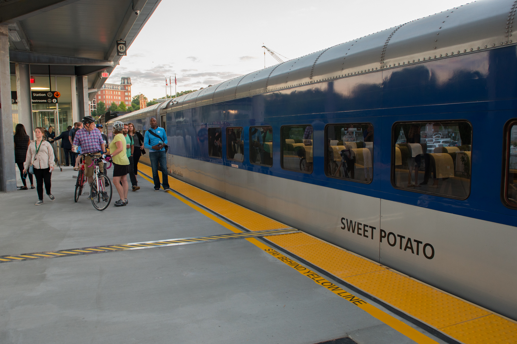 Passengers, including bikers, on the platform to get on the #73 Piedmont. Each passanger car has its own name, this one is called "Sweet Potato."